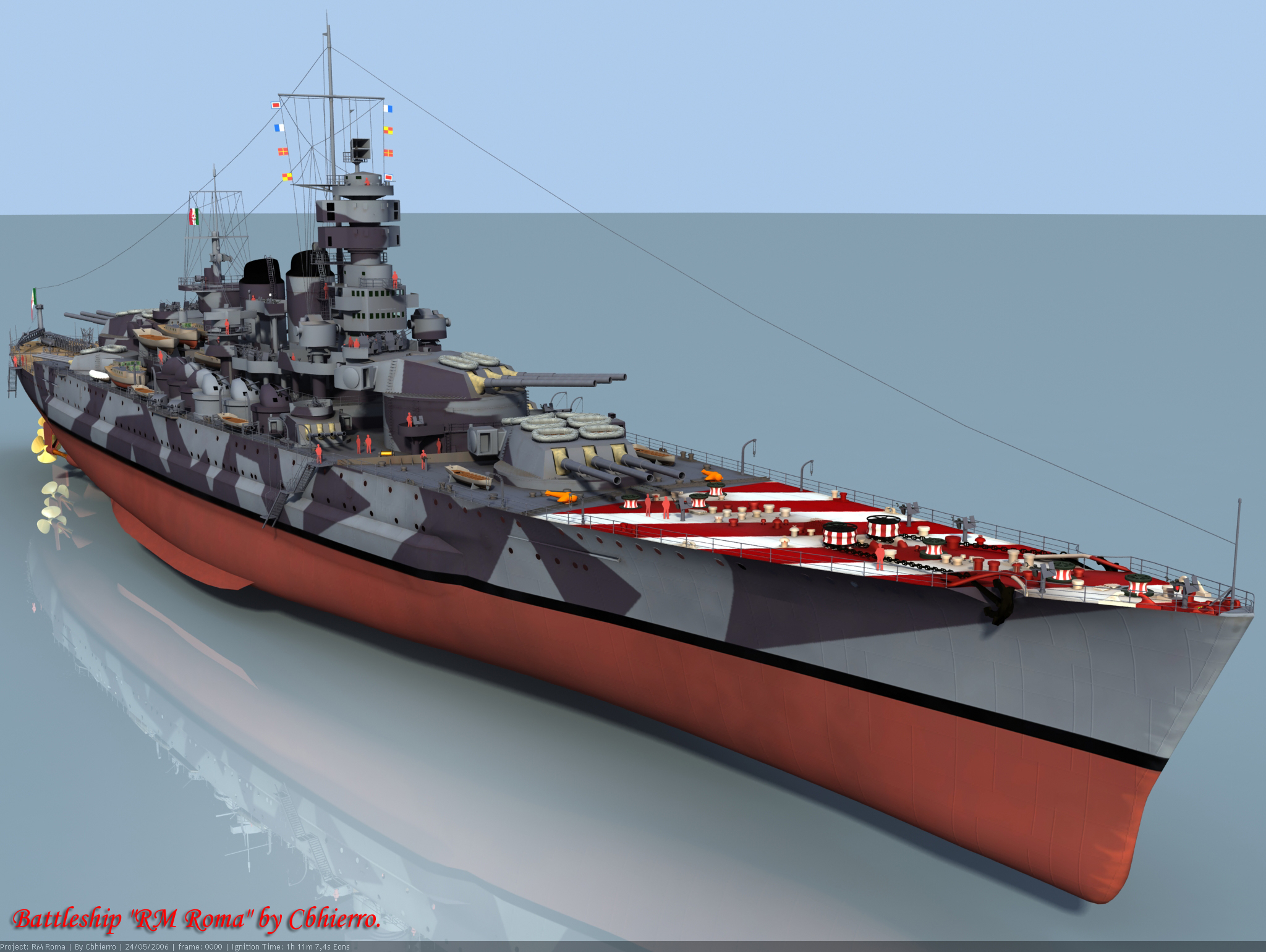 a 3D rendering of the different views of the Regia Marina Roma battleship